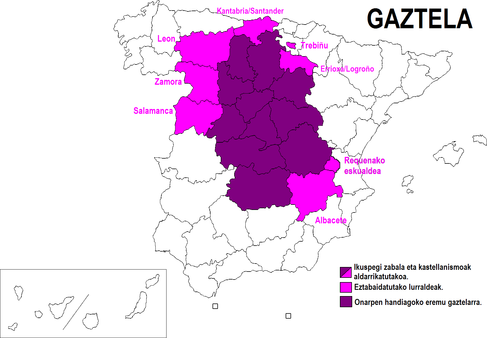 Map of the historical region of Castile, according to different perspectives.